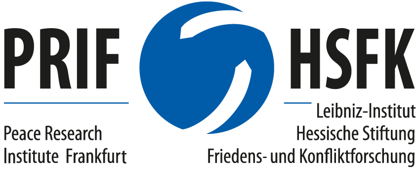 Peace Research Institute Frankfurt logo